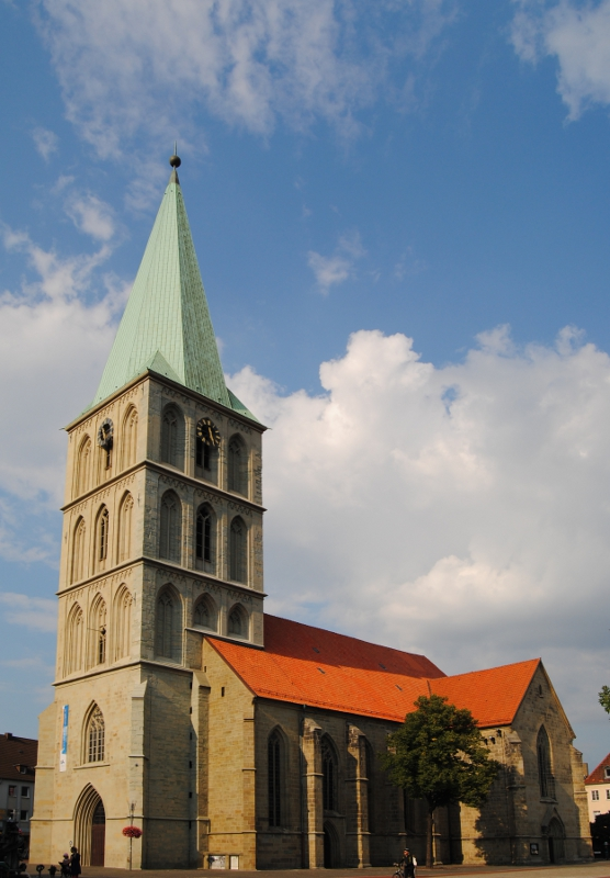 Pauluskirche, Hamm, Germany